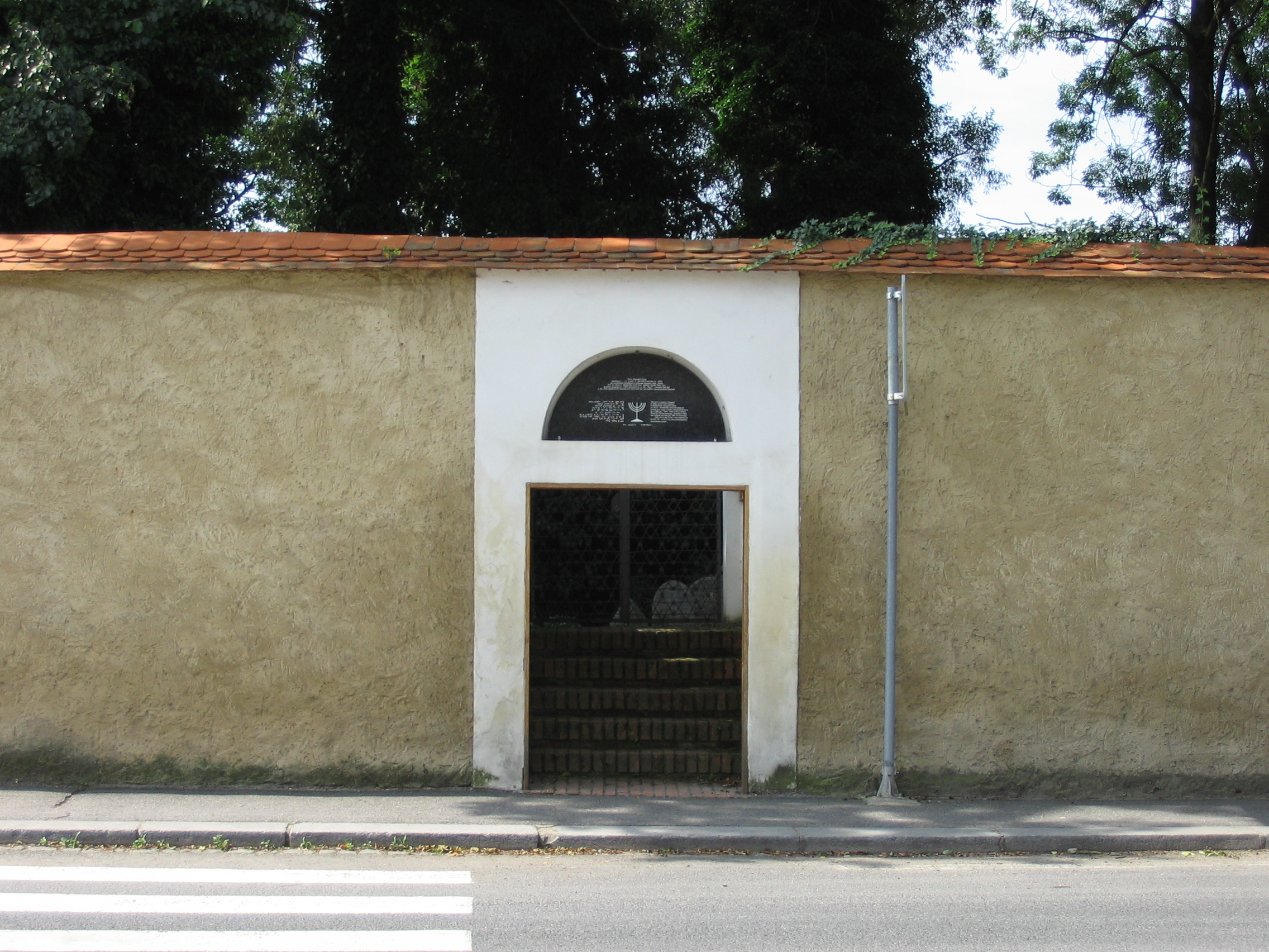 Old Jewish cemetery in Sušice, Klatovy District, Czech Republic